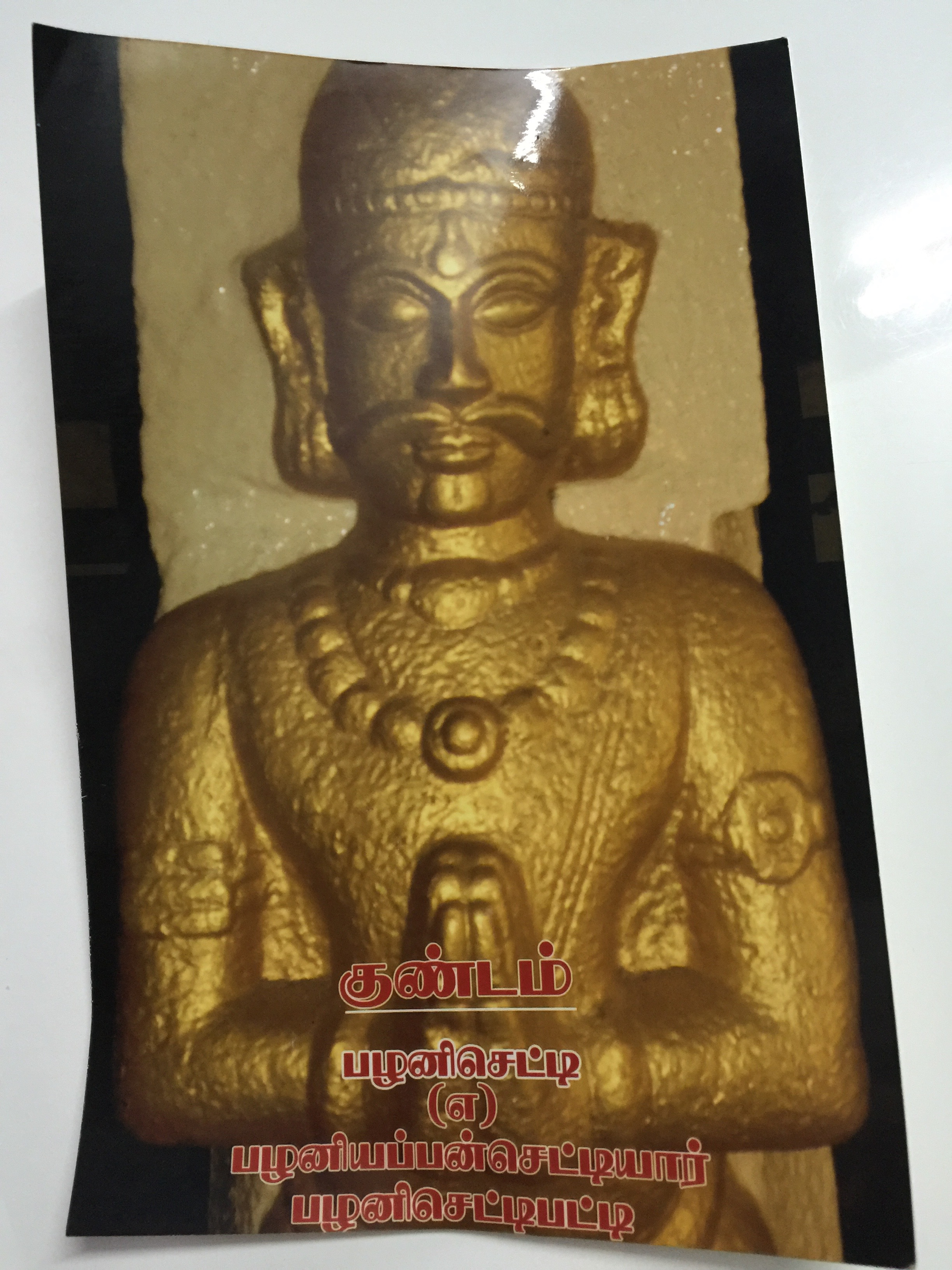 Founder of PalaniChettiPatti in Theni, Tamilnadu. He was instrumental in building the Mullai Periyar Dam.